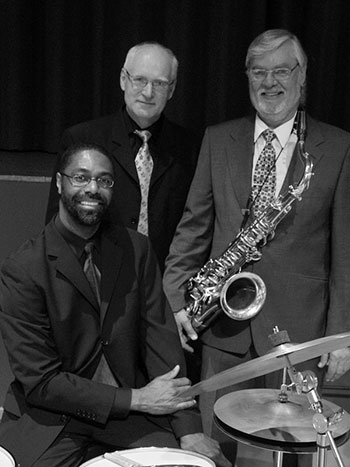 Dennis Macrel, Jens Kluver and Jesper Thilo 2008